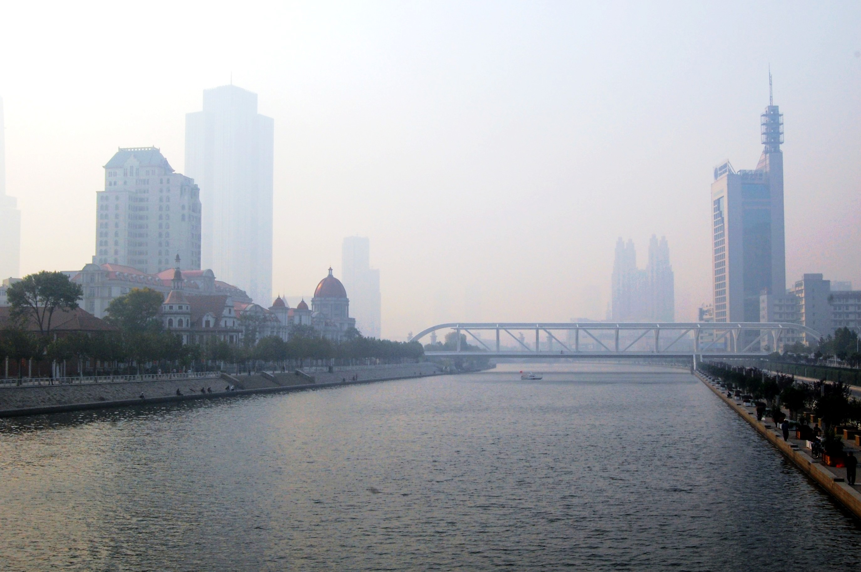 I wonder about the haze that seems to eternally envelope Tianjin. Perhaps it's the mist emanating from the Hai He River, maybe the usual fog of the last months of the year, or the smog brought by industrial pollution. This photo was taken from a pedestrians bridge that leads to the Ancient Culture Street where remnants of Tianjin's ancient past is showcased for curious tourists. It shows a bit of the city's colonial past through the European-inspired buildings on the left, and China's emergence as an industrial and economic superpower as symbolized by the high rise buildings in the background (October 2010).